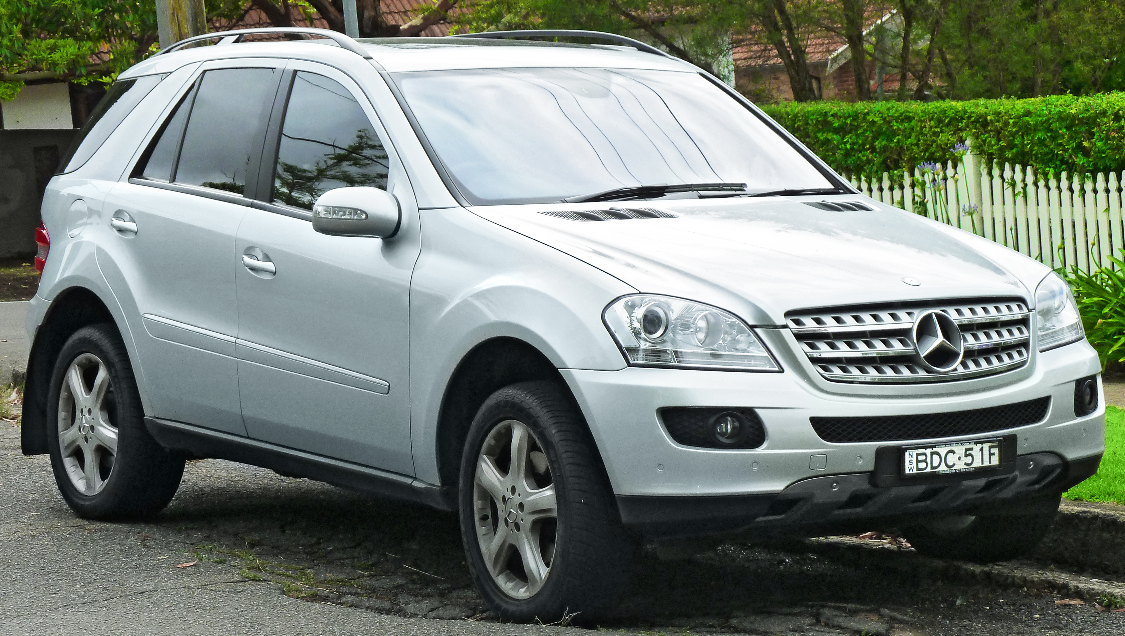 2007 Mercedes-Benz ML 320 CDI (W 164 MY08) Luxury wagon. Photographed in Gordon, New South Wales, Australia.